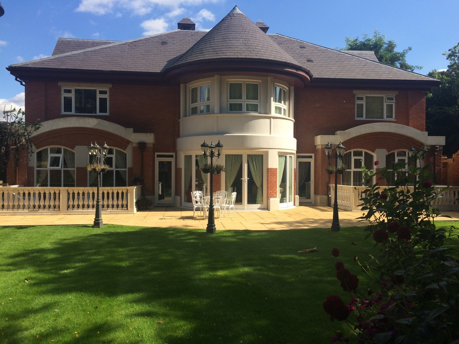 Wimbledon House by Basil Al Bayati